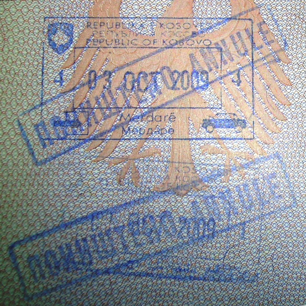 Kosovo stamps in a German passport annulled by Serbian border police.